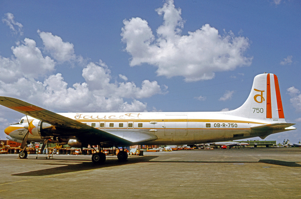 Douglas DC-6BF freighter of Faucett Peru at Miami Airport in 1972